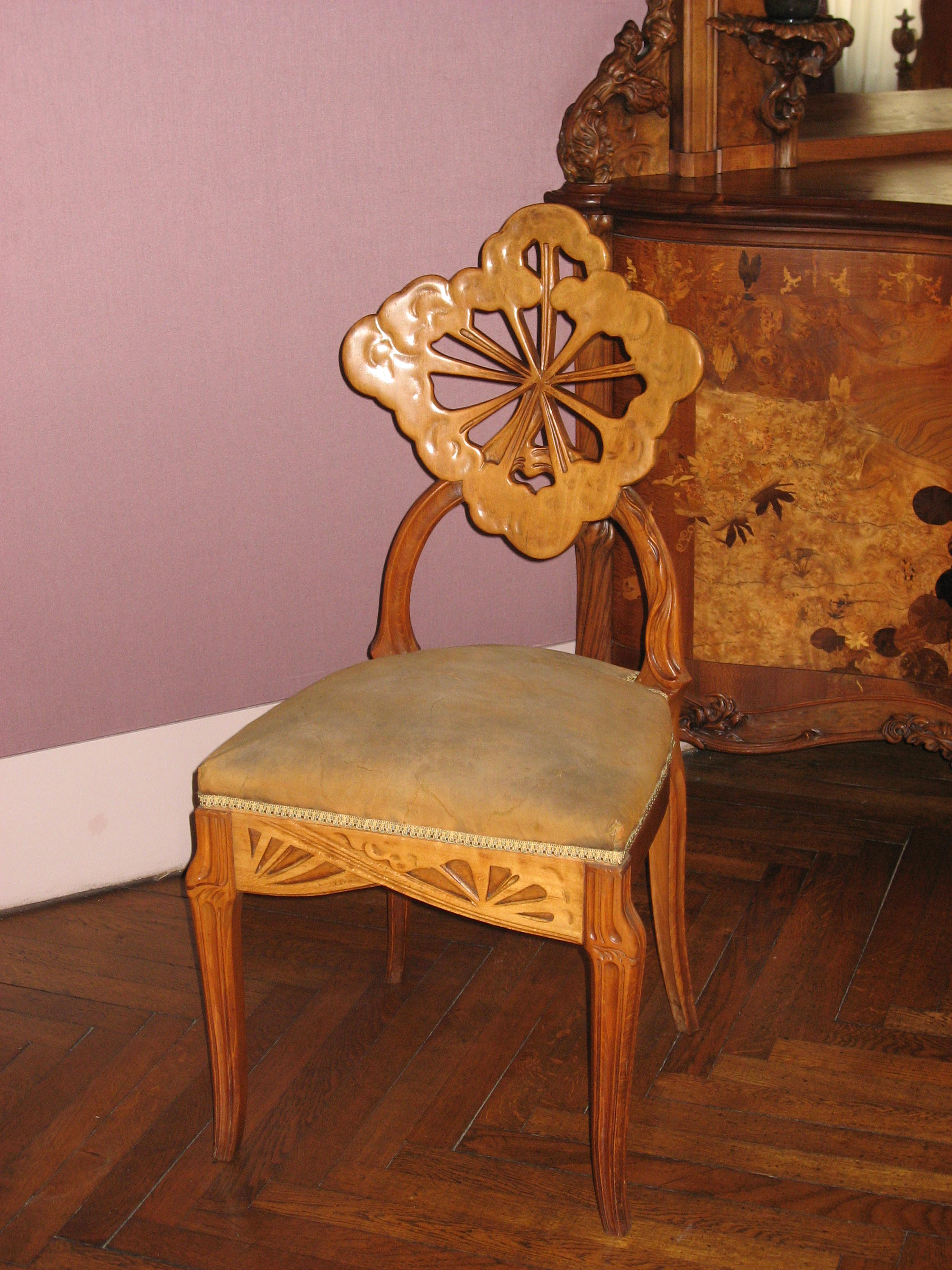 Art Nouveau chair with a Giant Hogweed (Heracleum mantegazzianum) motif in the Musée de l'École de Nancy